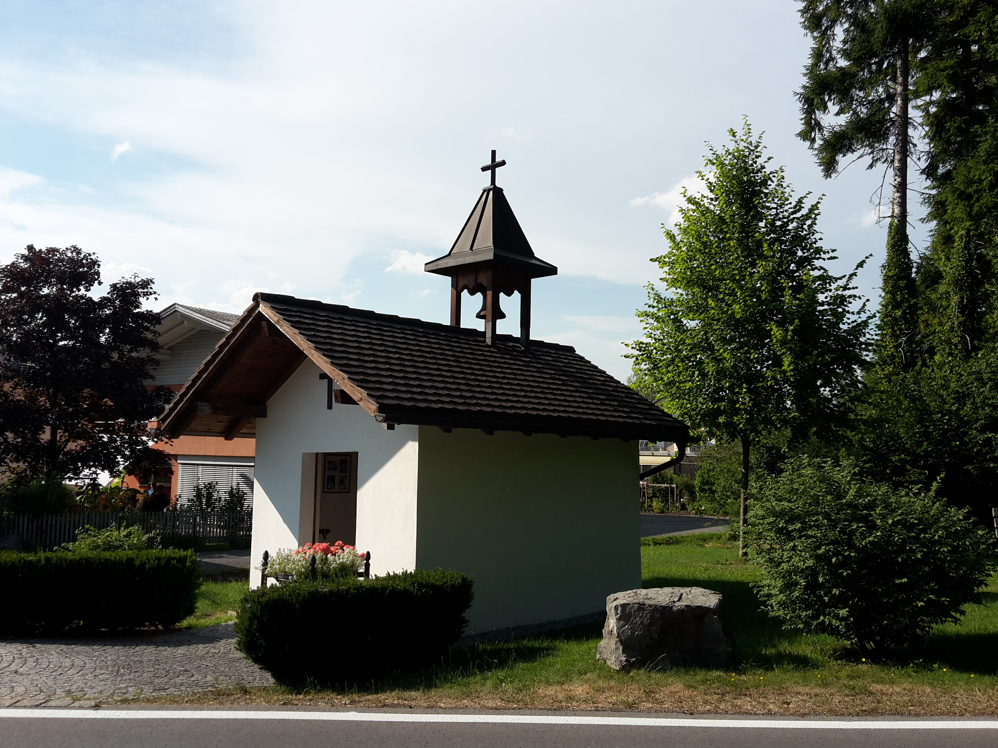 Chapel "Rheinmahd" (from Rhine) in Koblach, Vorarlberg, Austria.